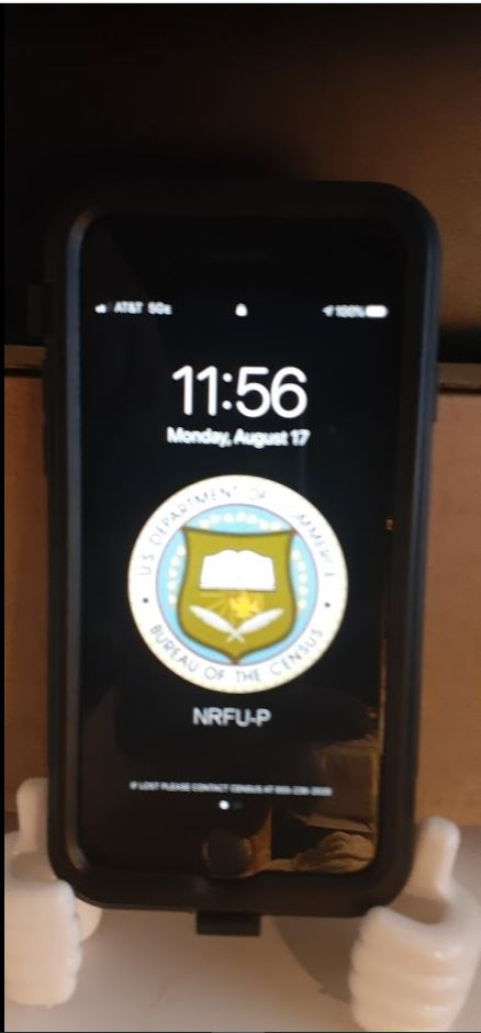 Census